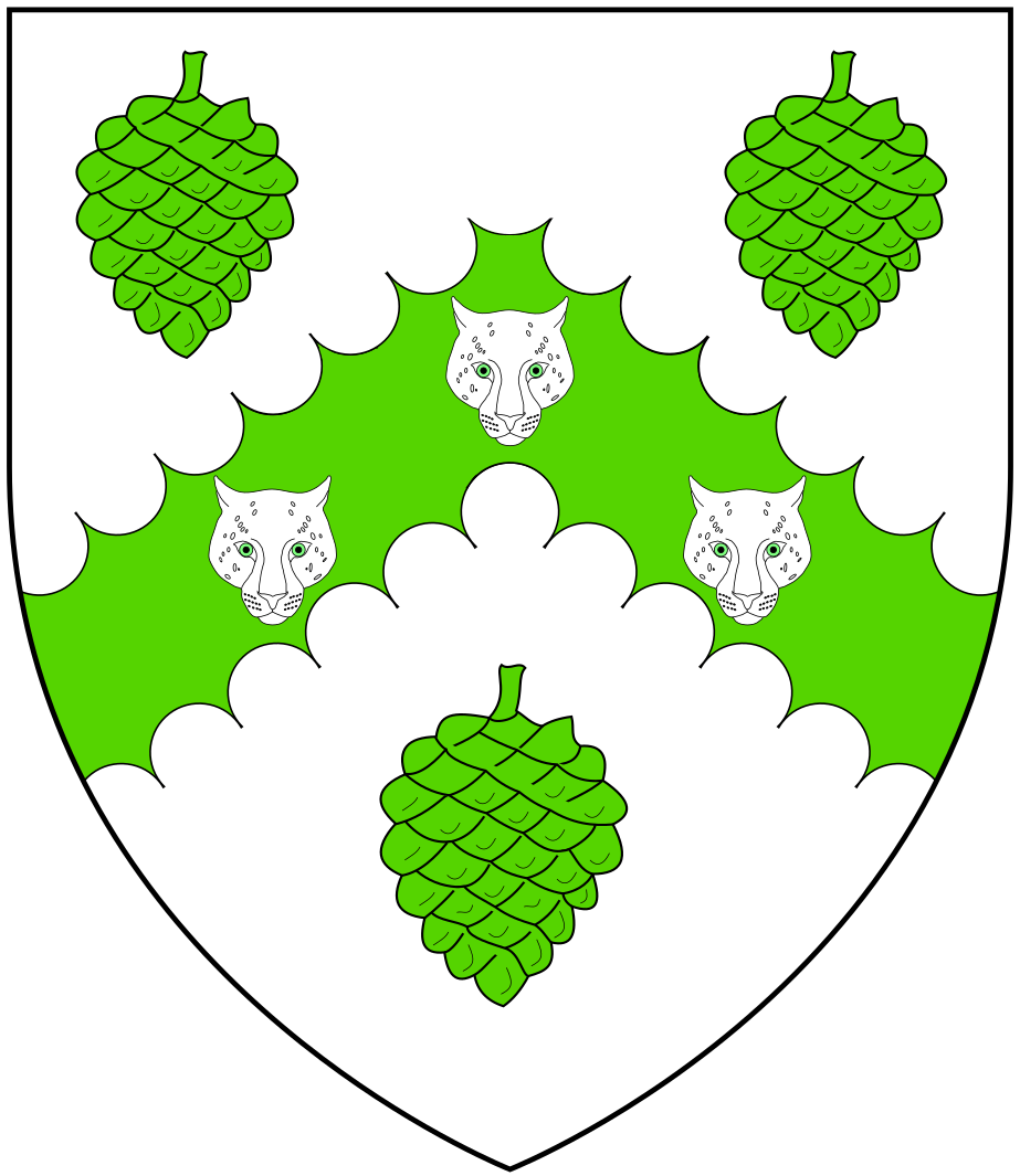 Arms of Perring, Perring Baronets of Membland, Devon: Argent, on a chevron engrailed between three fir cones pendant vert as many leopard'sfaces of the first (Debrett's Baronetage of England, revised, corrected and continued by George William Collen, London, 1840, p.434, Perring Baronets[1]). A mural monument to Peter Perring (1743-1796), who purchased Membland, uncle of the 1st Baronet, survives in Holbeton Church inscribed as follows:[1] "In memory of Peter Perring Esqr. of Membland, late one of the Council of Fort St George in the East Indies, who died the 8th day of December 1796 aged 53" Above is a large stone urn and below are shown the arms of Perring.